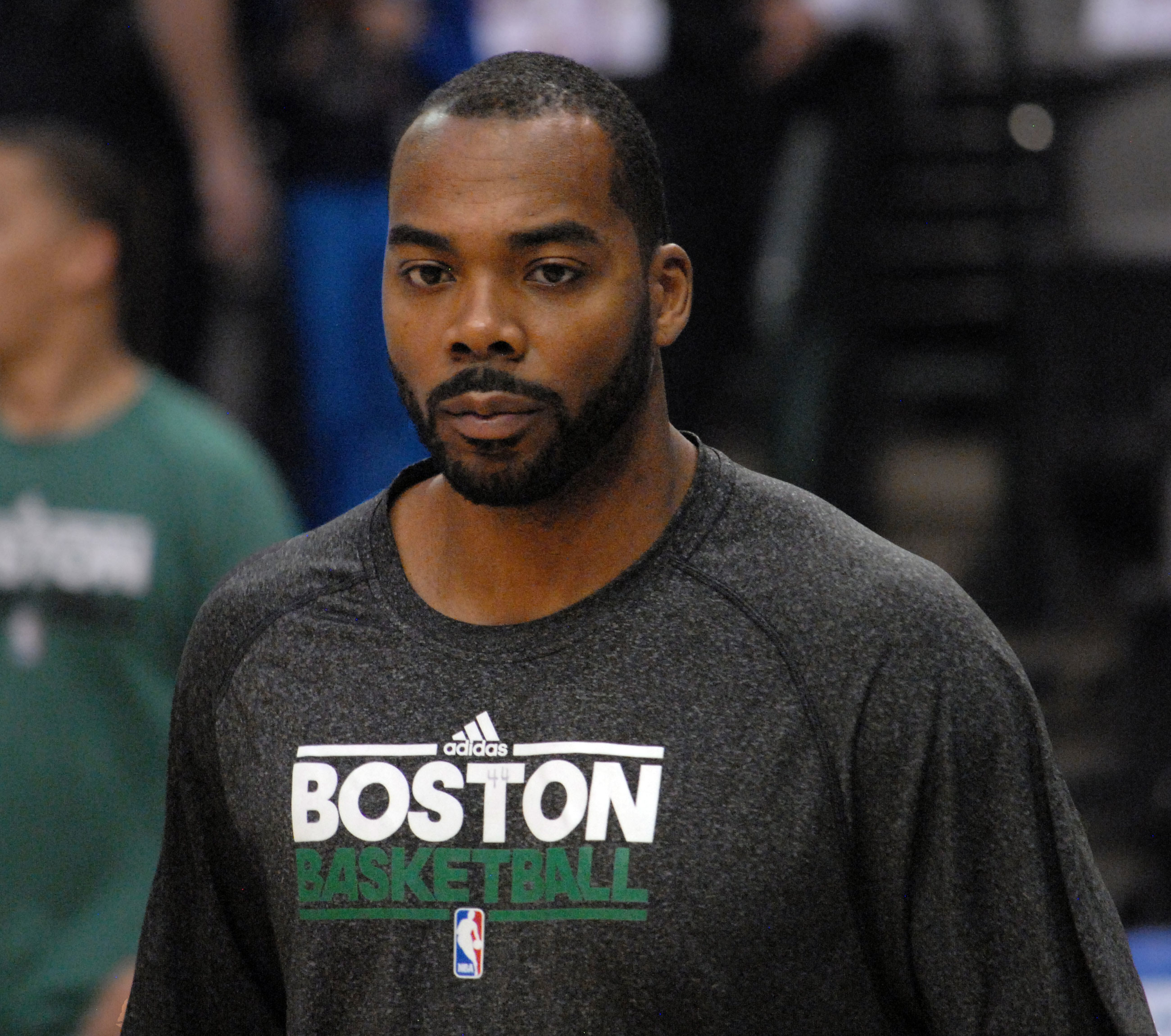 Professional bball player